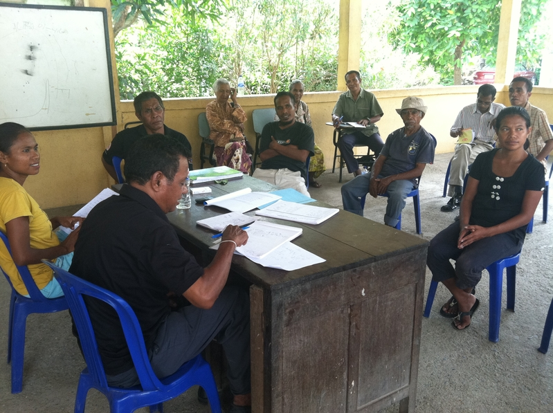 Suco council of Caicoli meeting in Dili